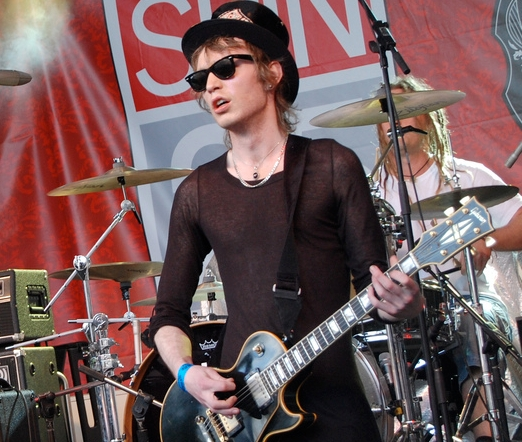 Micko Larkin — lead guitarist of the alternative rock group Hole — performing live in Austin, Texas in 2010.